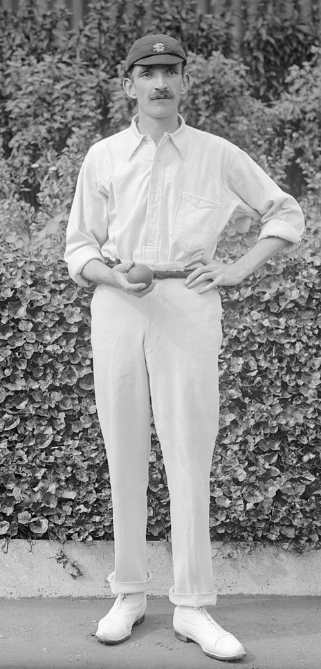 circa 1905: Surrey cricketer, W C Smith.